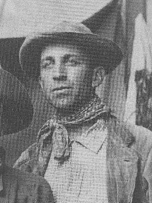 A photo of James S. Hutchinson taken in 1894 in what is now Kings Canyon National Park, at the end of a trip of exploration of the High Sierra. Photo from Bancroft Library.